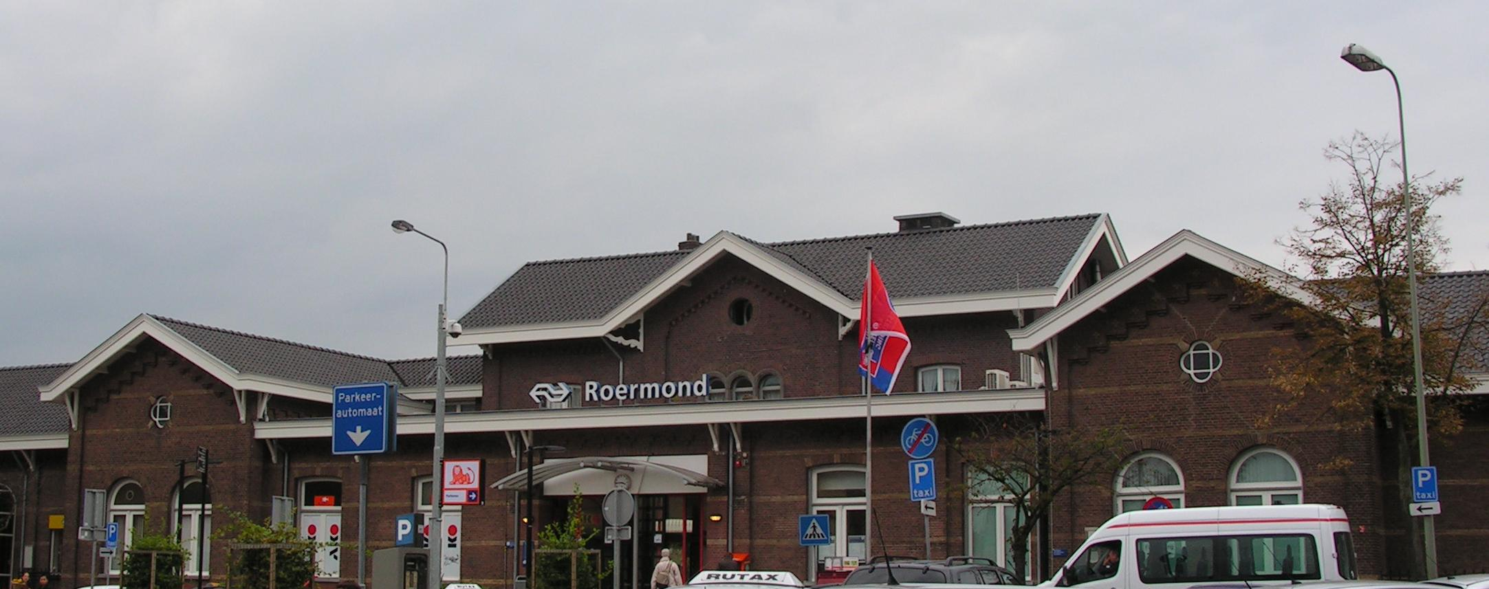 Trainstation of Roermond, the Netherlands.